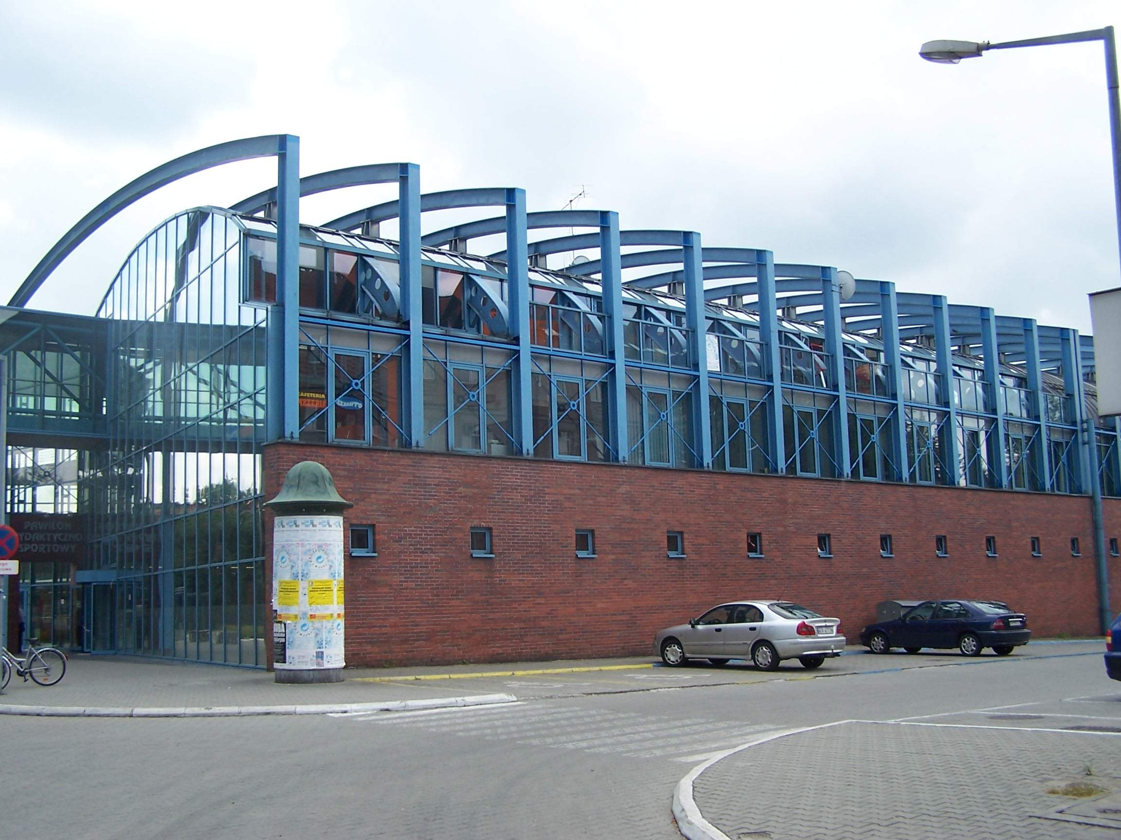 Photo by Piotrus. Academy of Economics in Kraków. The pool (Basen), part of the Sports and Teaching Building (Pawilon Dydaktyczno-Sportowy).